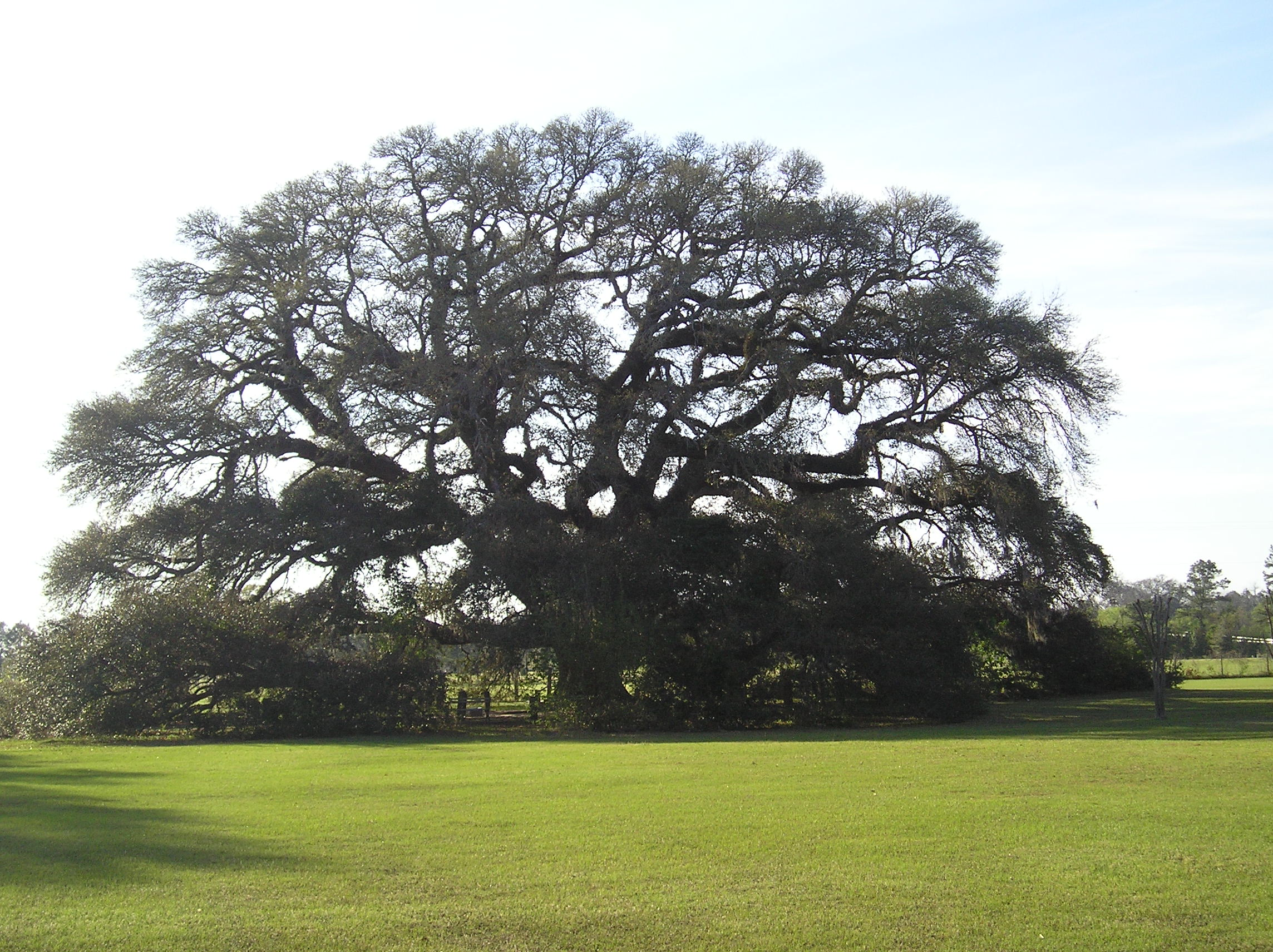 The Constitution Oak, a live oak tree in Geneva, Alabama believed to be one of the oldest and largest trees in the state.